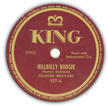 Hillbilly Boogie by the Delmore Brothers, King Records 1946.